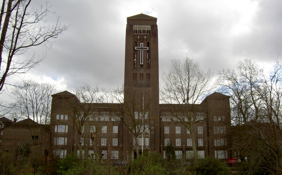 William Booth College, Champion Park, London, the London training college for UK officers of the Salvation Army. By Giles Gilbert Scott, 1932. (The illuminated cross is a later addition). Taken by User:Dbiv on March 25, en:2005.